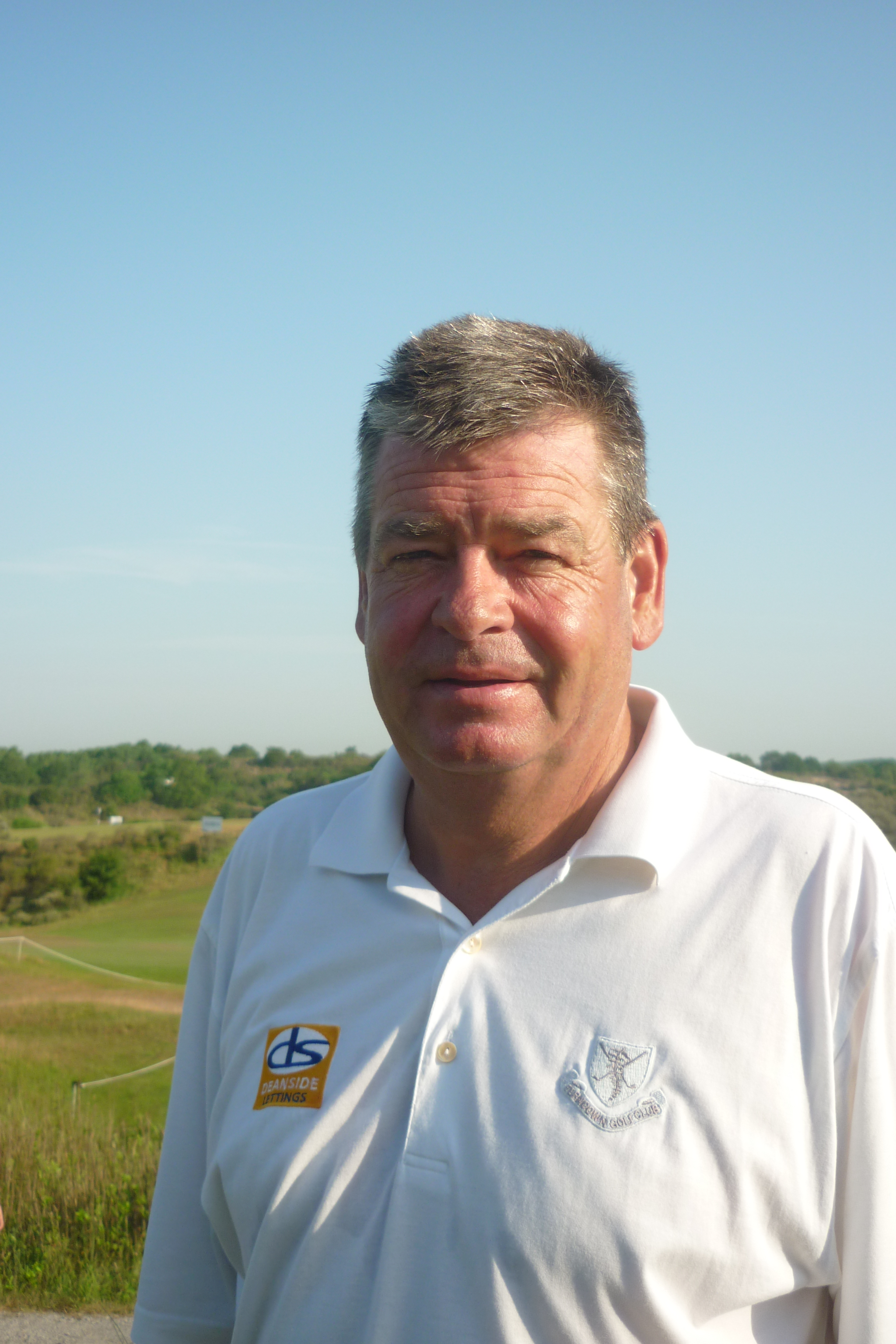 Kevin Spurgeon at Van Lanschot Senior Open